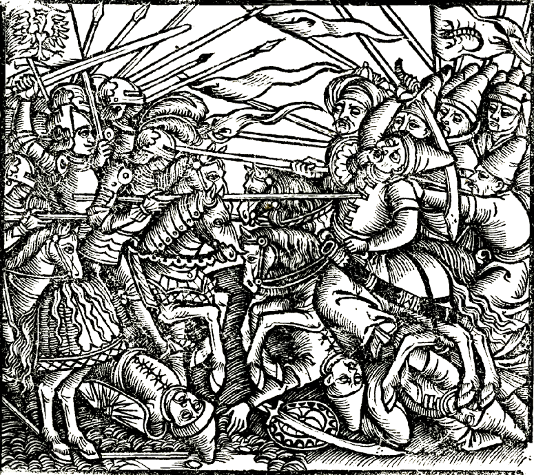 Battle between Poles and Tatars. Title page of "Description of Asian and European Sarmatias" (Descriptio Sarmatiarum Asianae et Europianae), 1521